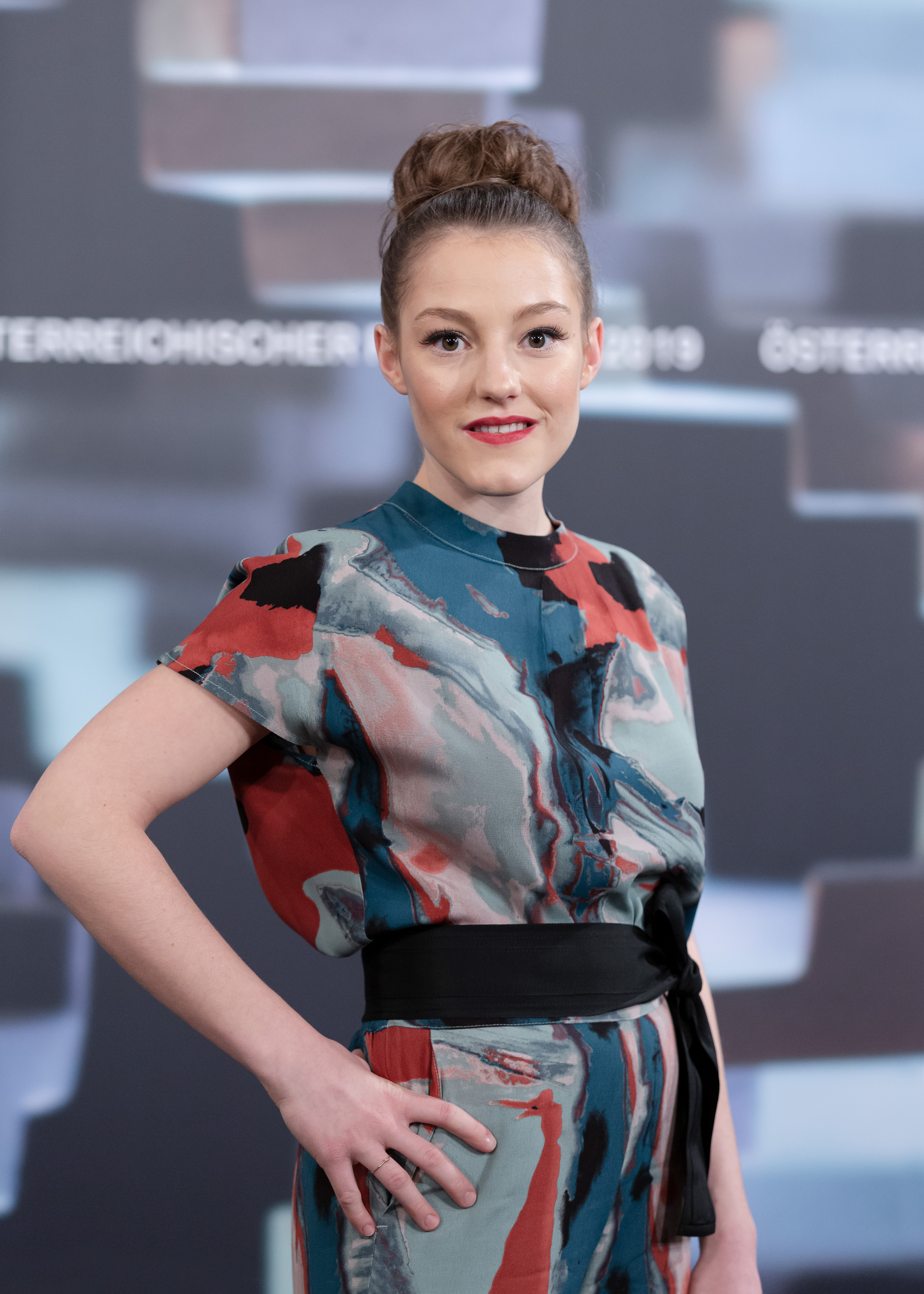 Sophie Stockinger ("L’Animale"), photo call at the Austrian Film Awards 2019 (Rathaus, Vienna,Austria).